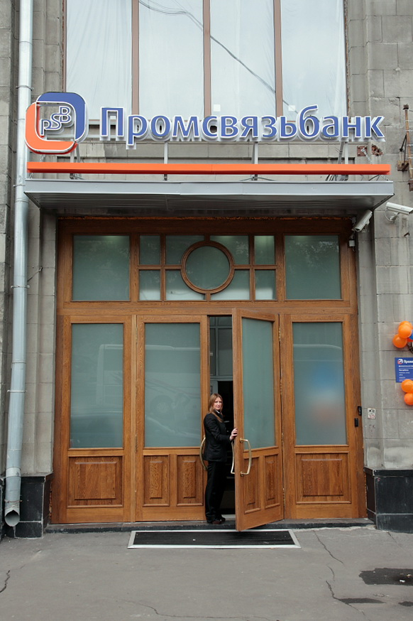 Office Promsvyazbank in Moscow